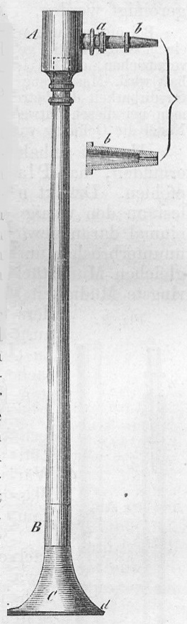 This is a cropped version of the public domain image File:Plattner Lötrohr.JPG